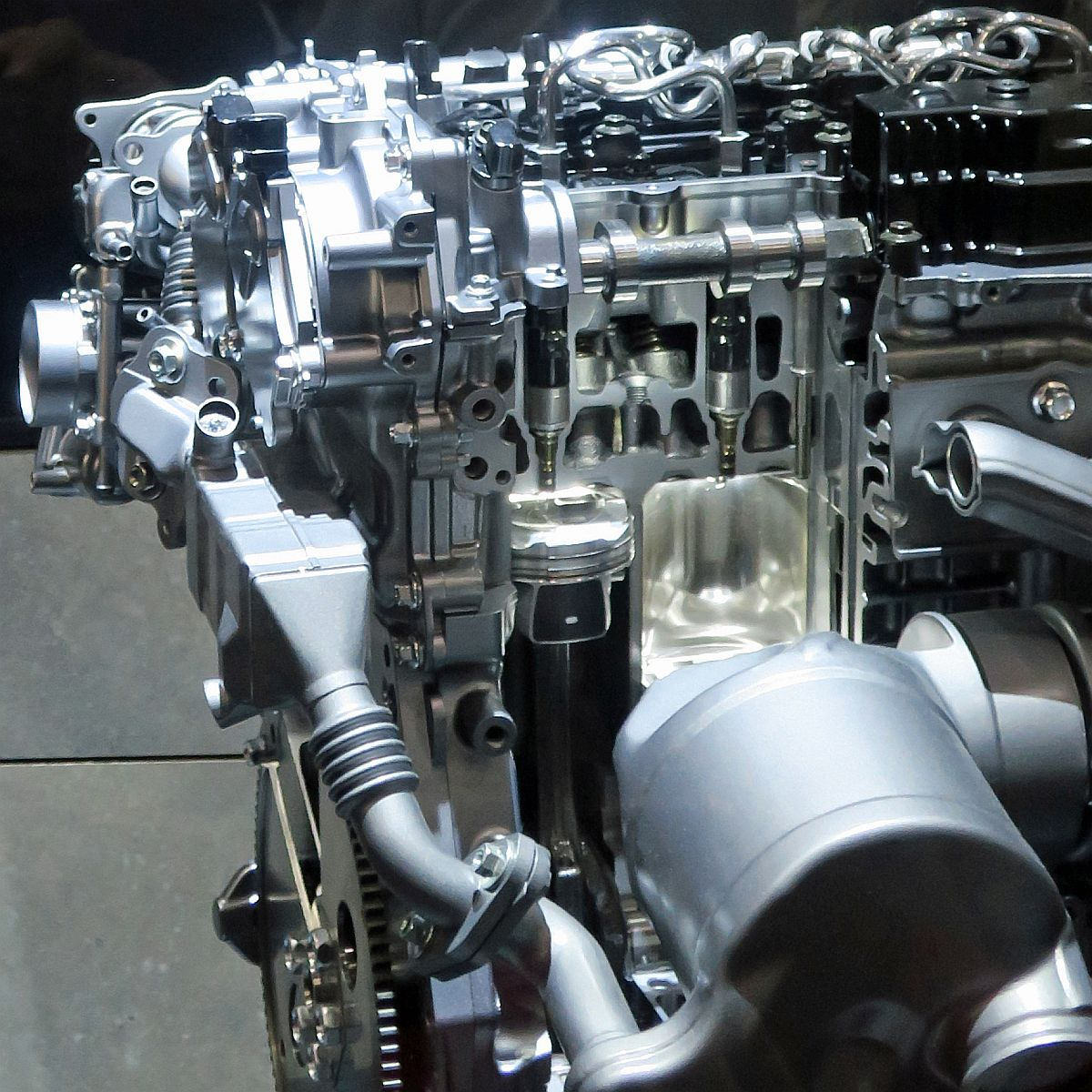 Mazda SkyActiv-X at the Tokyo Motor Show 2019.